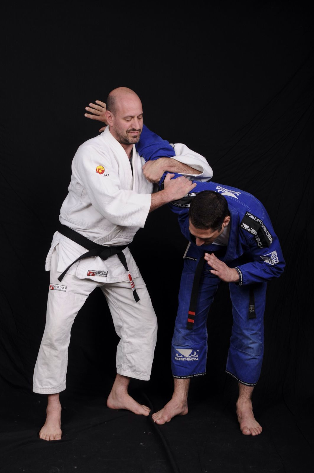 Ciro Zalcberg, 3rd degree black belt professor in brazilian Jiujitsu (BJJ) illustrates the transition to armbar